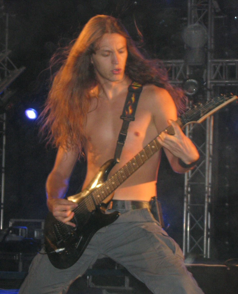 Mark Jansen, one of the two guitarists and singers of Epica, performing at Tuska Open Air Metal Festival 2006.